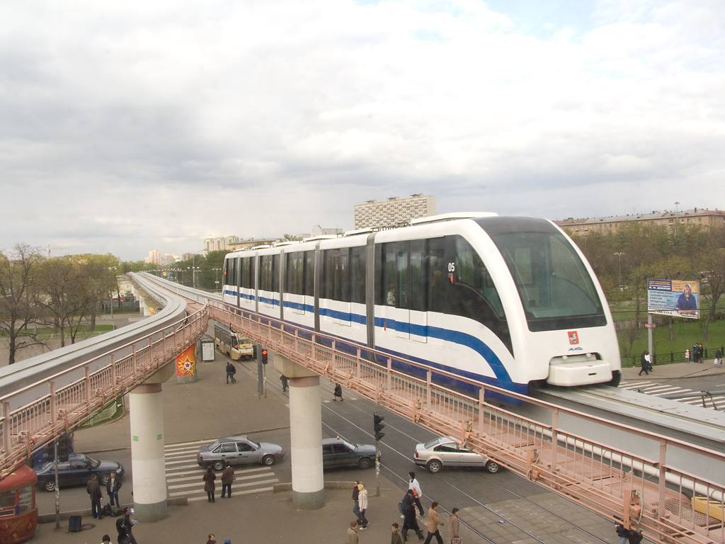 Moscow monorail train departs from station "Vystavochnyy tsentr".